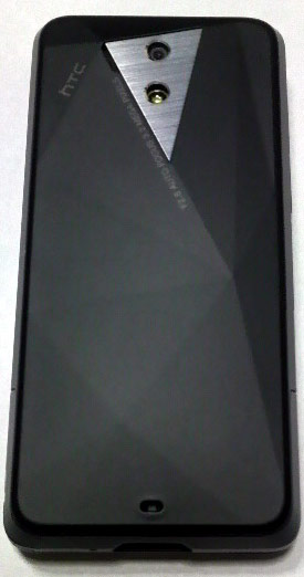 HT-01A Back